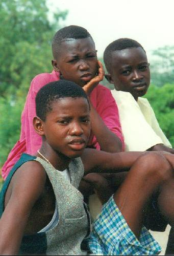 Alieu Jallow & friends, Georgtown